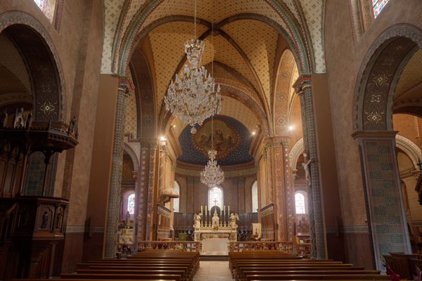 Cathédrale Saint-Jean-Baptiste; Aire sur l'Adour, Landes, Aquitaine, France; ; ; Photographer: Paul M.R. Maeyaert; © Paul M.R. Maeyaert; ; Cultural heritage/Cathedral; Europe/France/Aire sur l'Adour